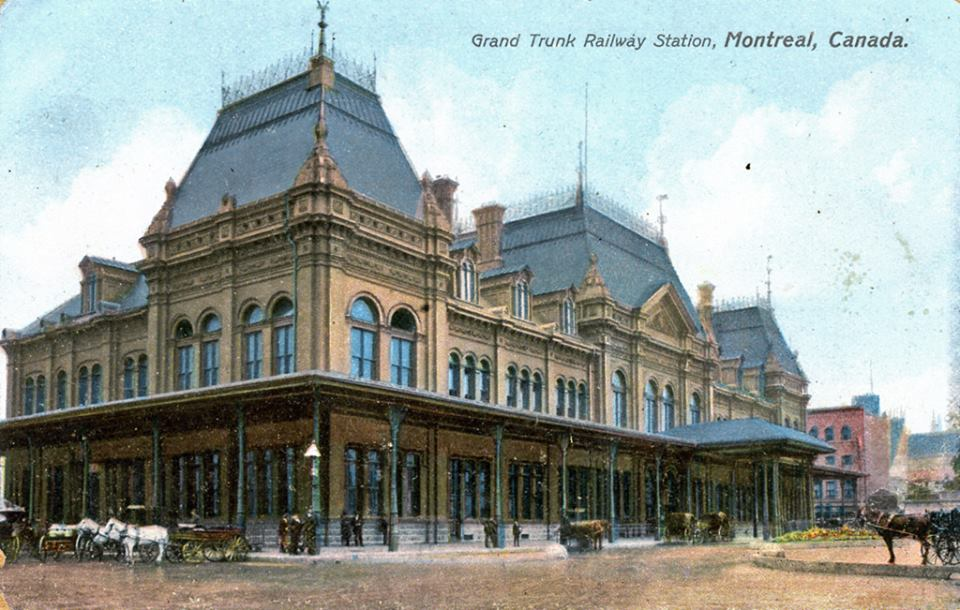 Postcard showing the Bonaventure Station in Montreal, from the Toronto Railway Historical Association's collection.